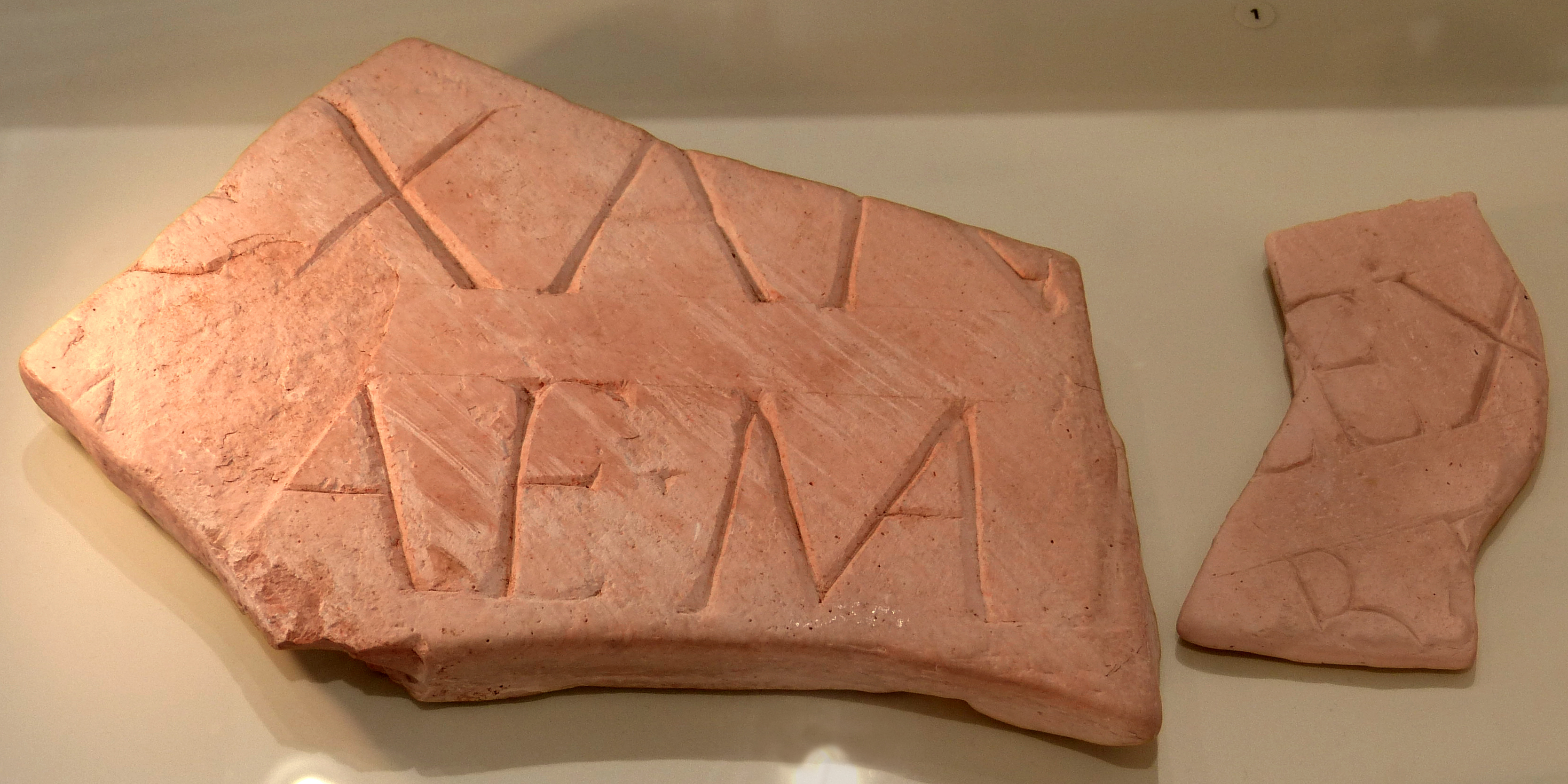 Weiltingen ( Bavaria ). Archaeological park Ruffenhofen: Limeseum - Fragments of an inscription ( 235 AD ) naming emperor Severus Alexander, from Dambach.